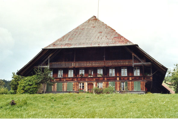 Typical Farmer house in Emmental Switzerland